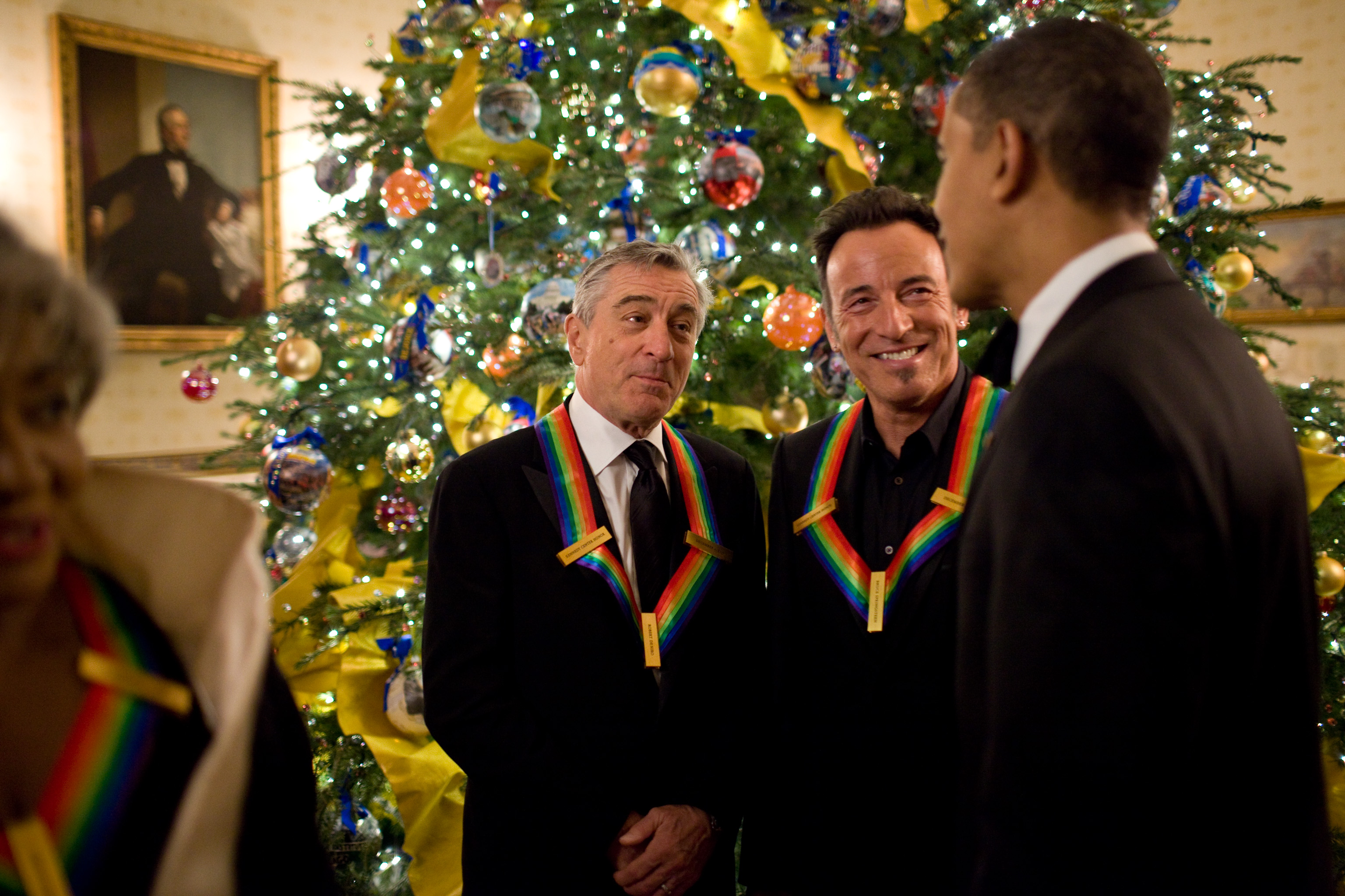 “Having seen more than 25 Bruce Springsteen concerts since 1978 and having seen just about every movie Robert DeNiro has ever made, it was a great thrill to be in their presence as the President greeted them before the Kennedy Center Honors at the White House.” (Official White House photo by Pete Souza) This work is in the public domain in the United States because it is a work prepared by an officer or employee of the United States Government as part of that person’s official duties under the terms of Title 17, Chapter 1, Section 105 of the US Code. See Copyright. .